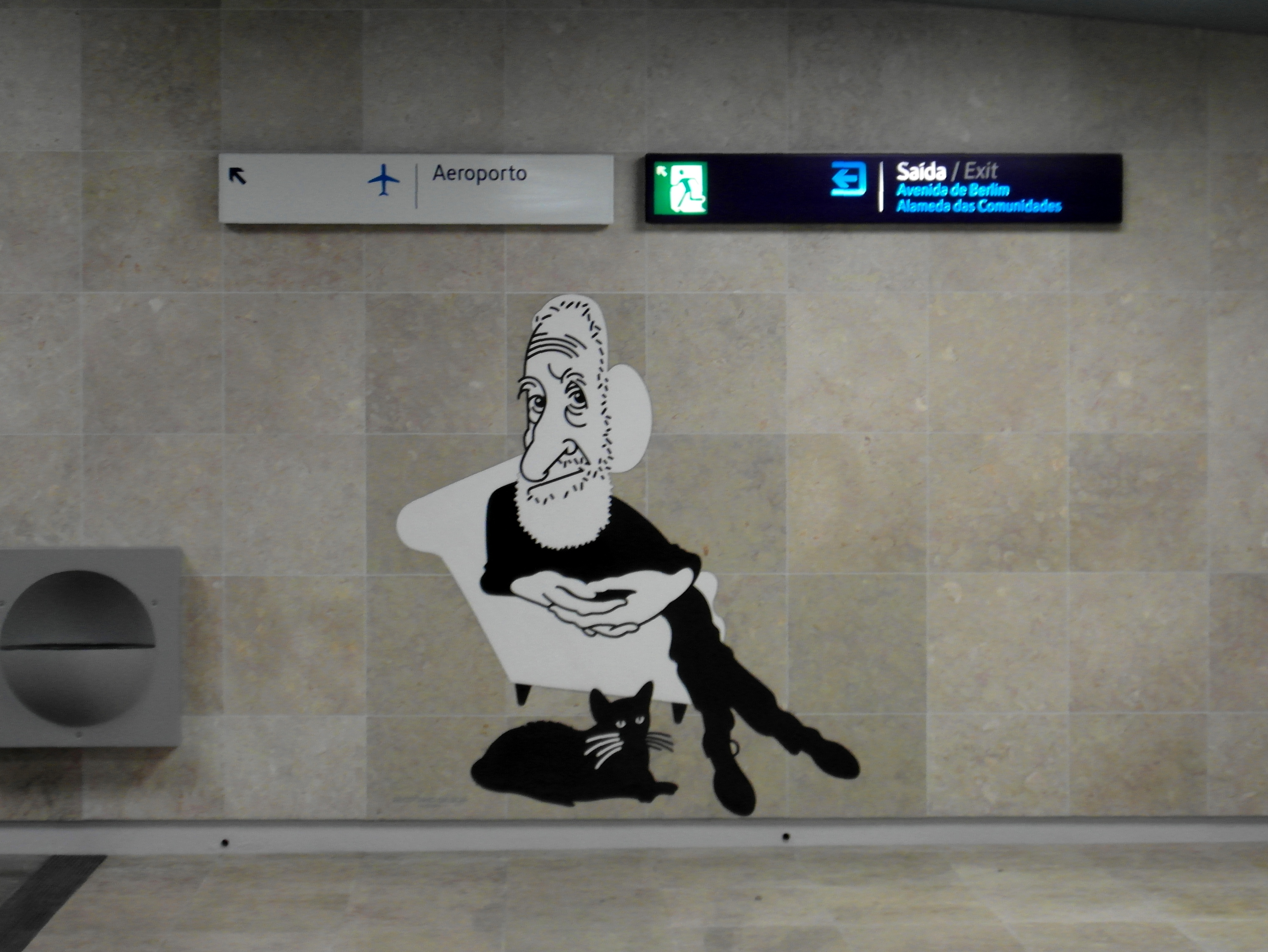 Cartoon of the Portuguese writer Agostinho da Silva at Aeroporto metro station, Lisbon, Portugal